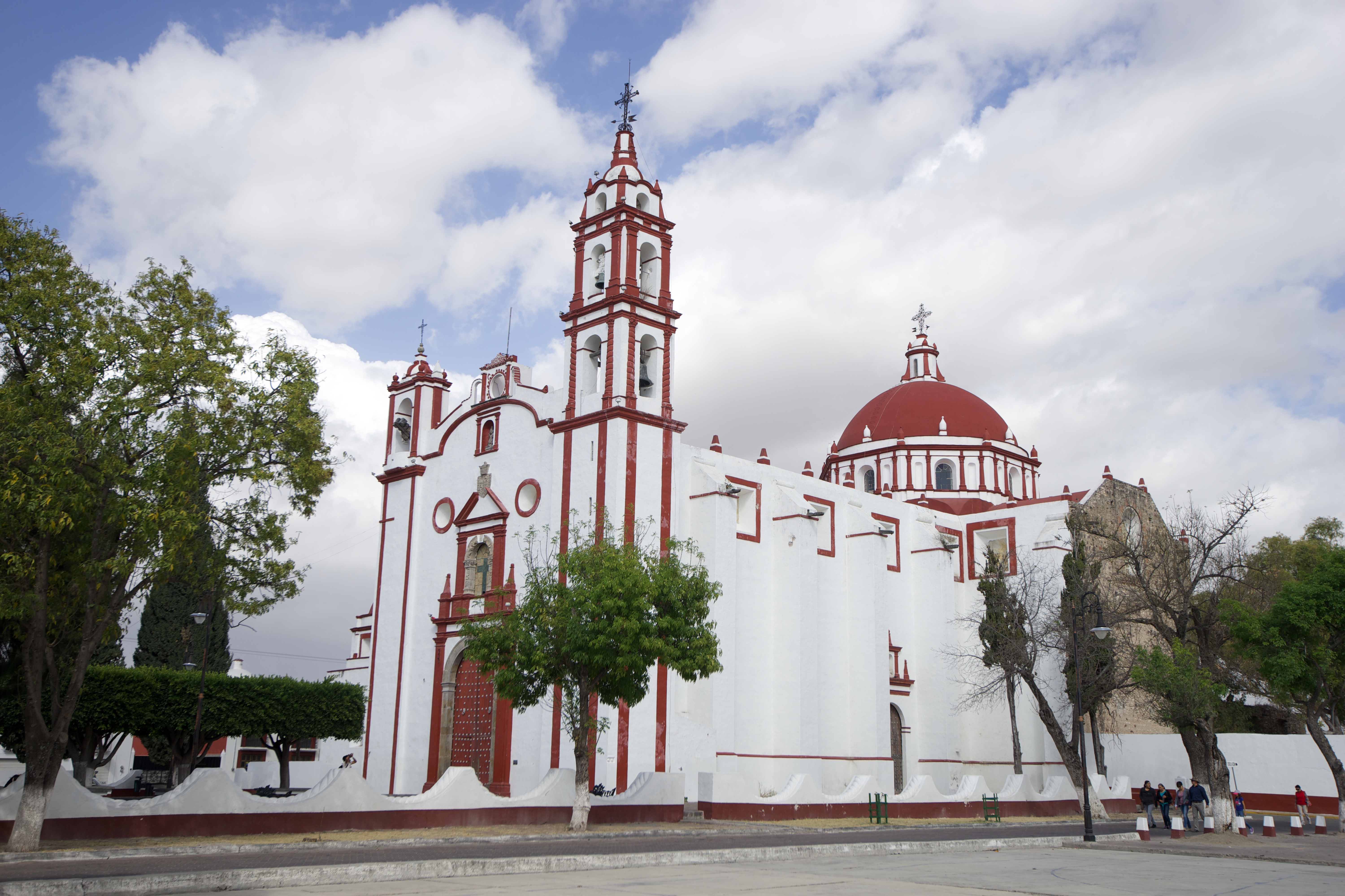 Catholic Church of Tecali de Herrera